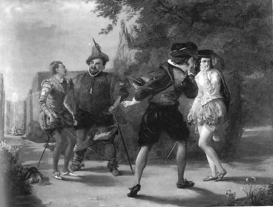 William Powell Frith, The Duel Scene from "Twelfth Night" by William Shakespeare